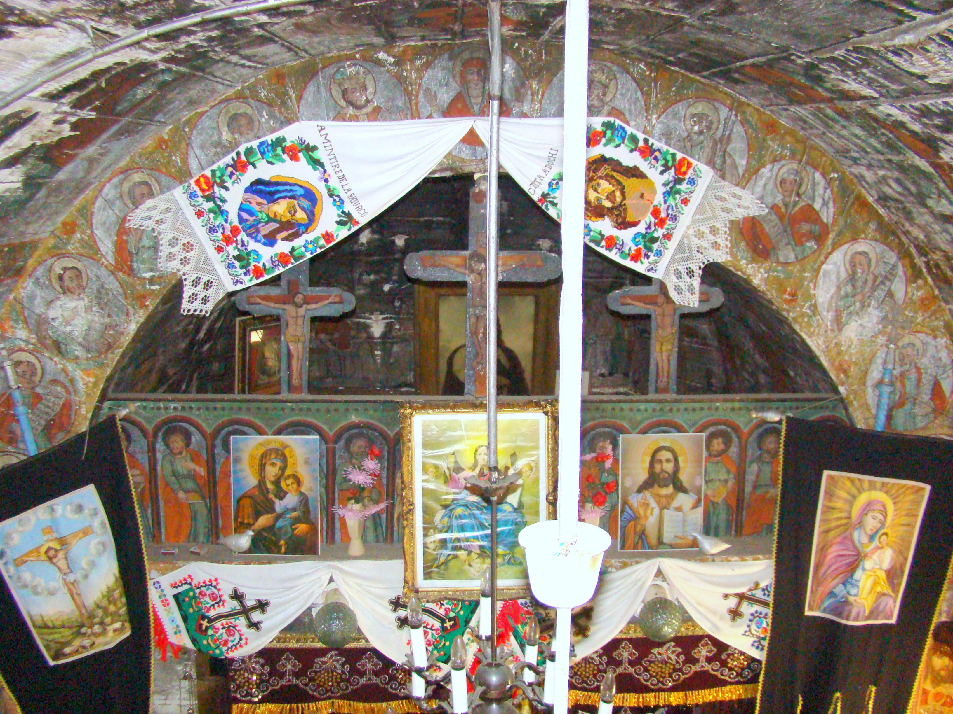 Wooden church in Bârsa, Sălaj